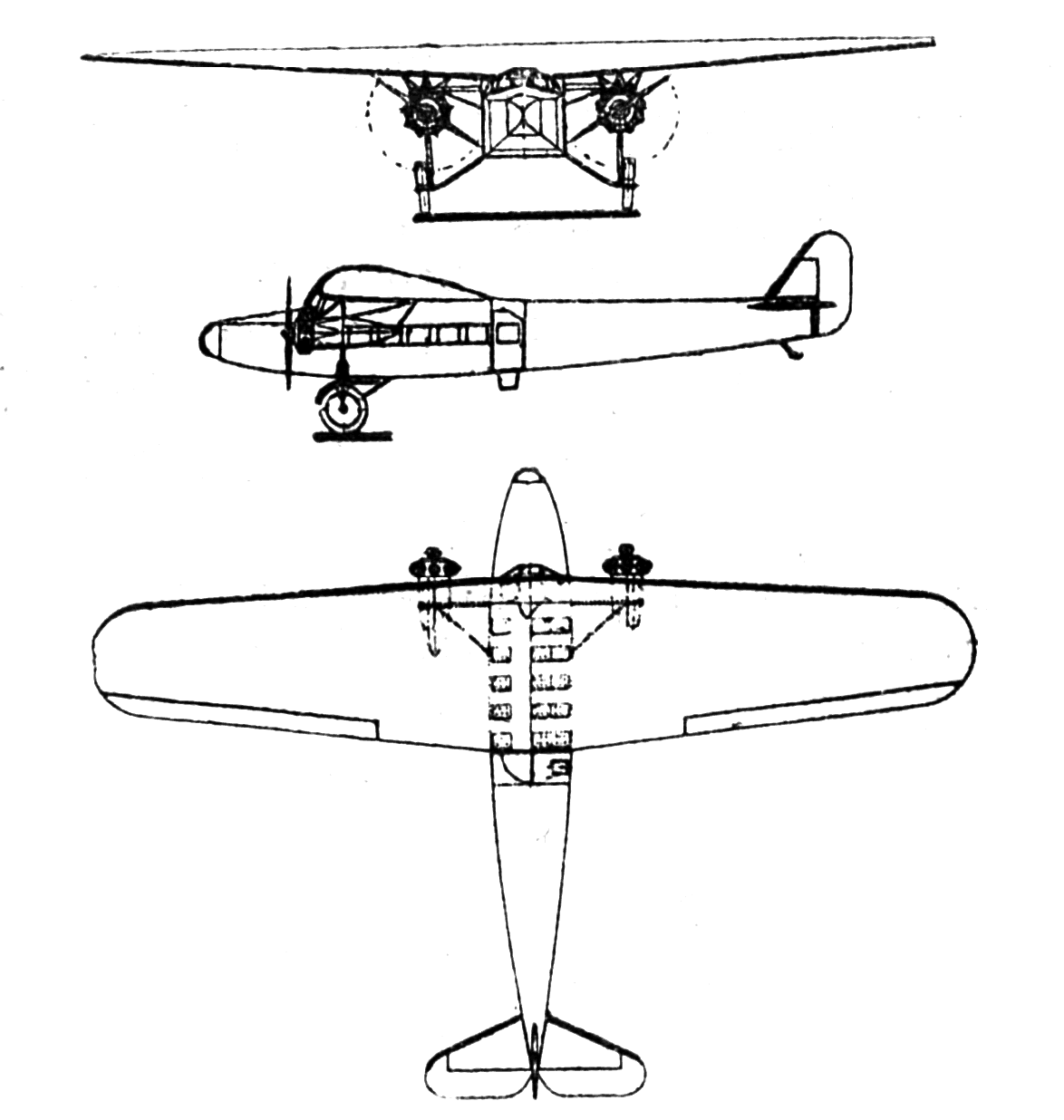 Fokker F.VIII 3-view drawing from Les Ailes December 30,1926